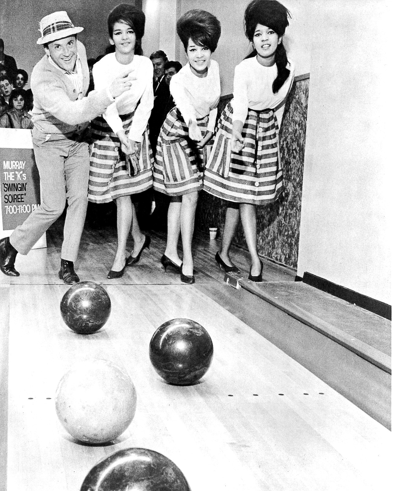 Photo of the Ronettes bowling with noted New York Disc Jockey Murray the K (Murray Kaufman) from a program for Murray the K's Christmas Revue.